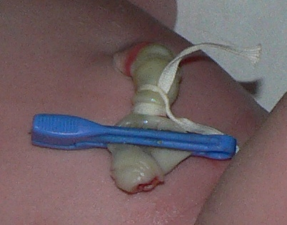 umbilical clamp